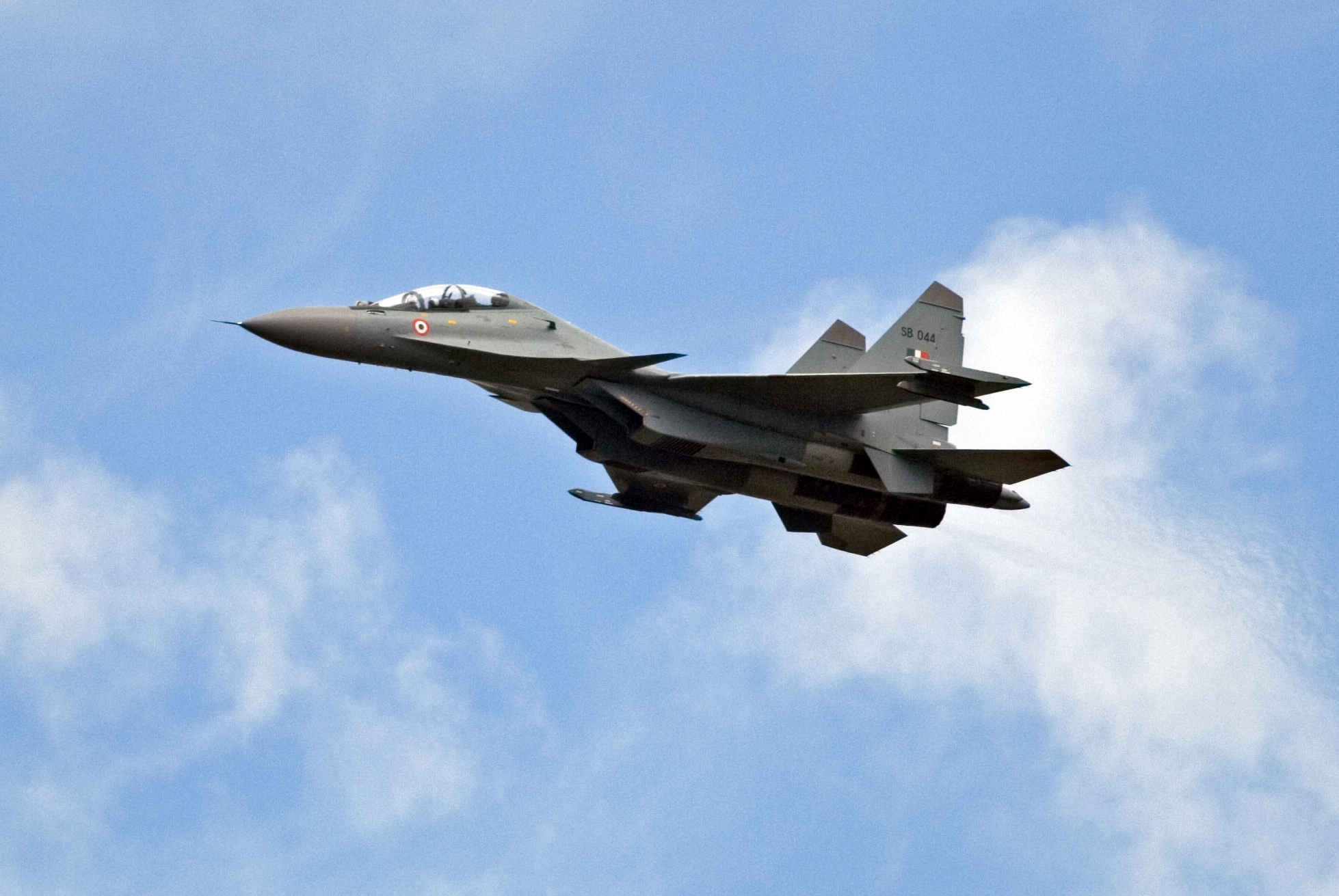 The Sukhoi Su-30 MKI (NATO reporting name Flanker-H) heavy class, long-range, multi-role, air superiority fighter and strike fighter.